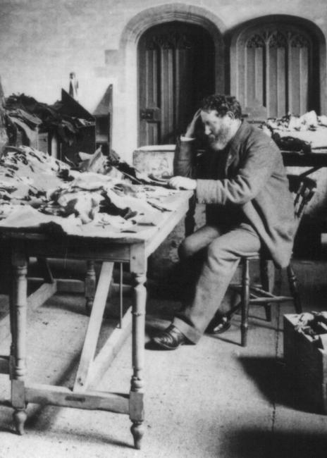 Solomon Schechter studying documents from the Cairo Geniza, c. 1895.